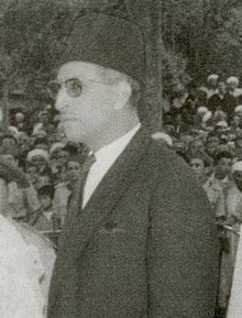 Mbarek Bekkay, first prime minister of Morocco at a reception ceremony in Tetouan in Decemter 1956.